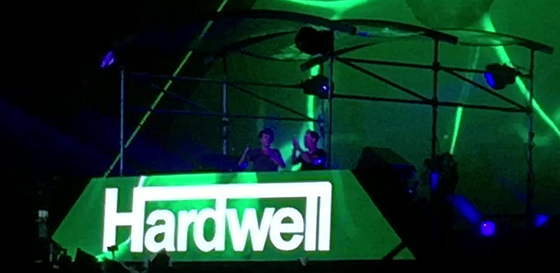 Atmozfears and Hardwell live at Hardwell's last I am Hardwell show